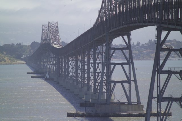 Richmond San Rafael Bridge Before Roadway Resurfacing 7-11-06, Caltrans District 4 Photography Catalog Set #7836d